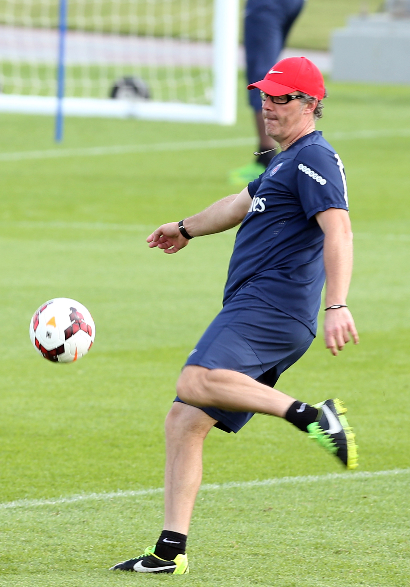 Paris Saint-Germain coach Laurent Blanc gets ready to kick a ball during a training camp in Doha. Pic by Mohan